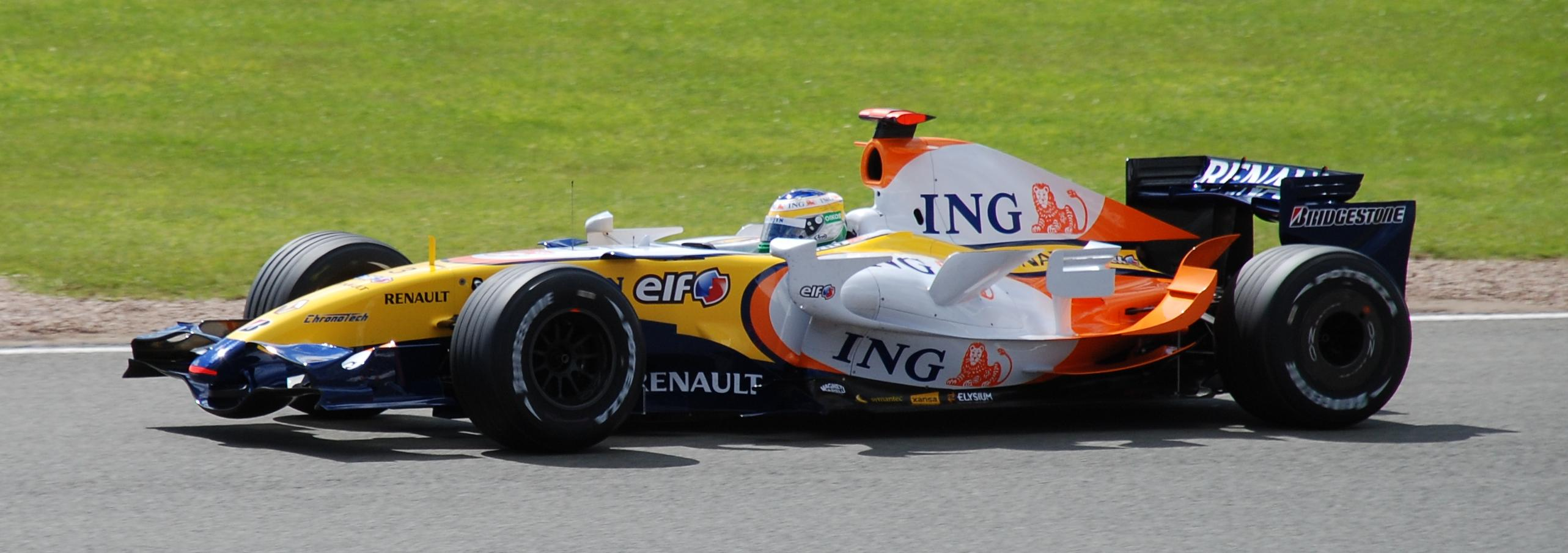 Giancarlo Fisichella driving for Renault F1 at the 2007 British Grand Prix.